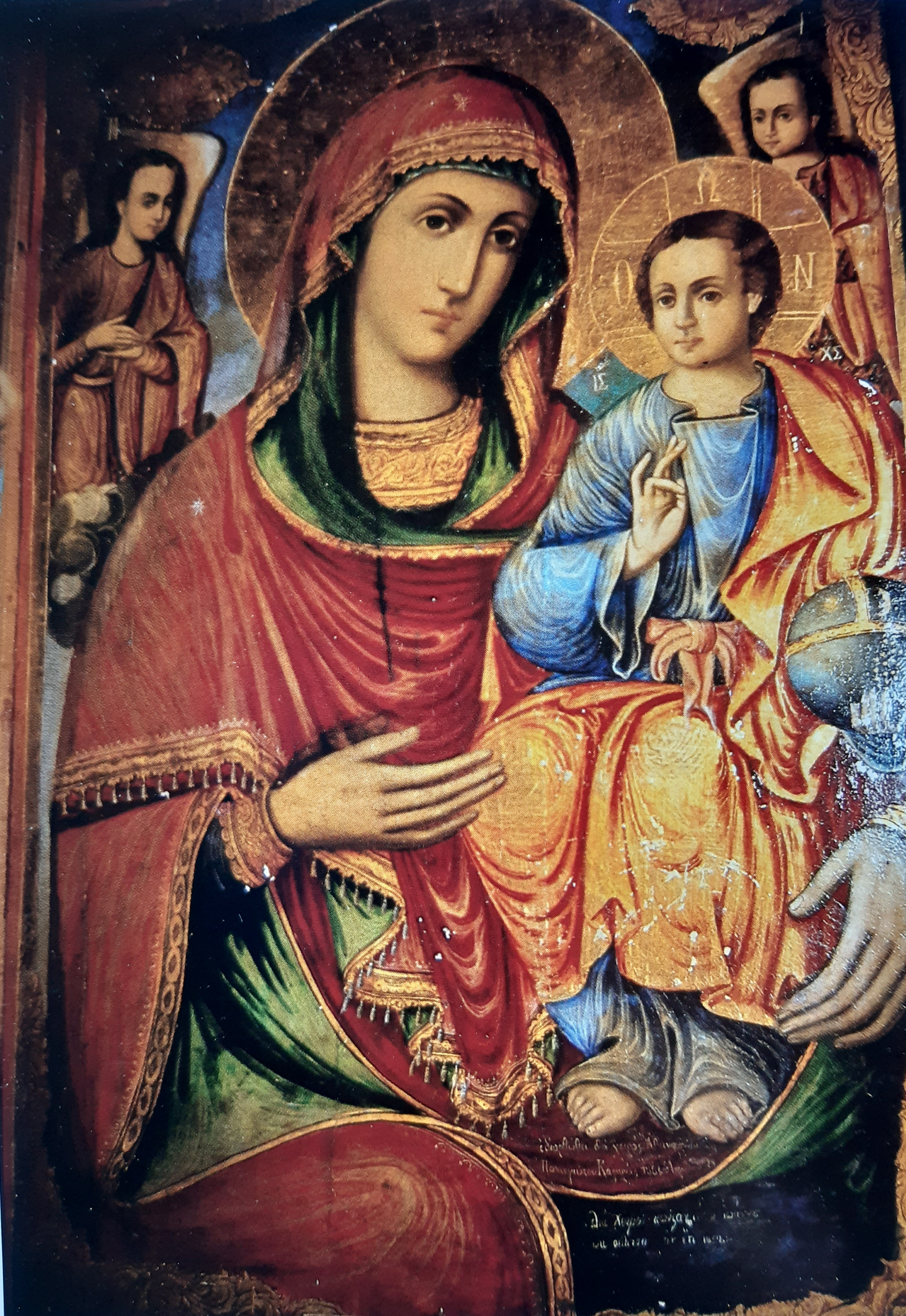 Saint Paraskevi of Ikonomos Church Icon of Vrefokratousa by Athanasios Panagiotou